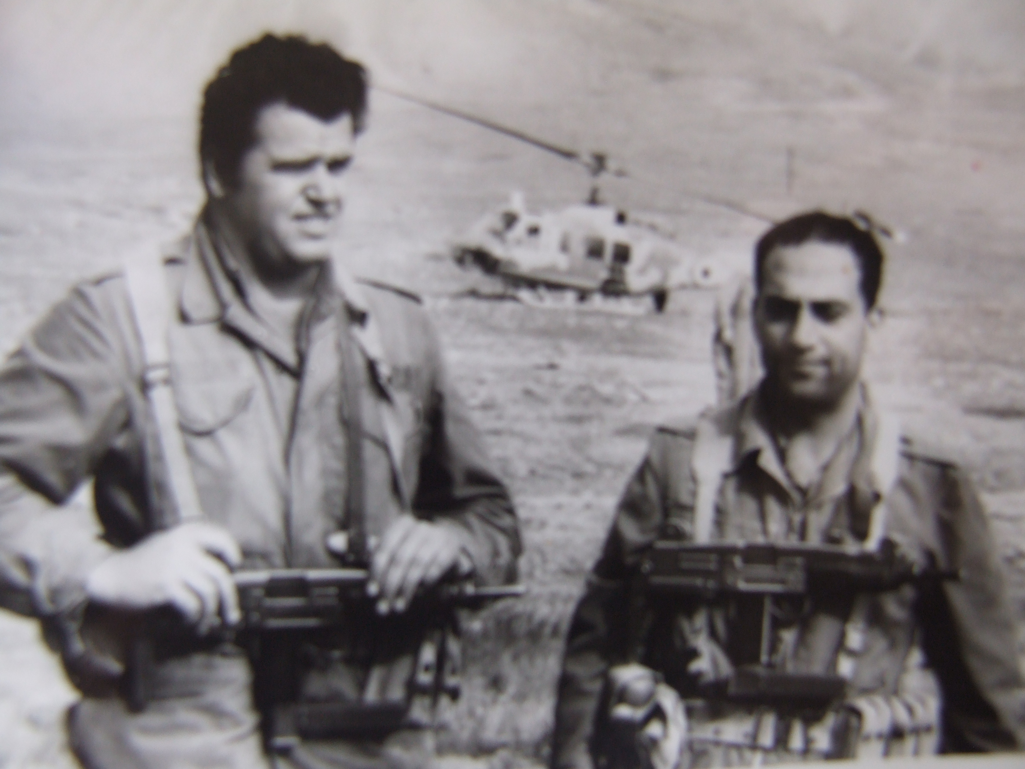 Israel Defense Forces